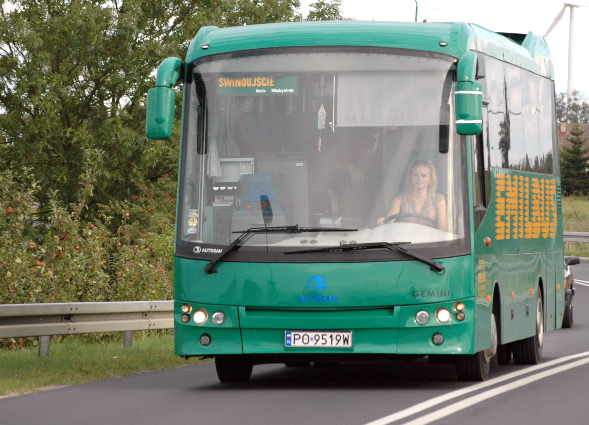 Autosan A0808T Gemini bus in West Pomeranian Voivodeship near Wolin, Poland. Built 2006, Emilbus Świnoujście operator.